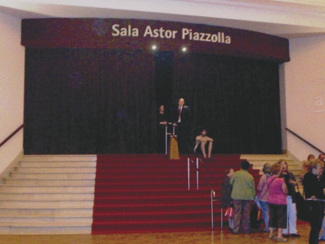 Main entrance to Astor Piazzola hall, the main movie theatre of the Mar del Plata Film Festival